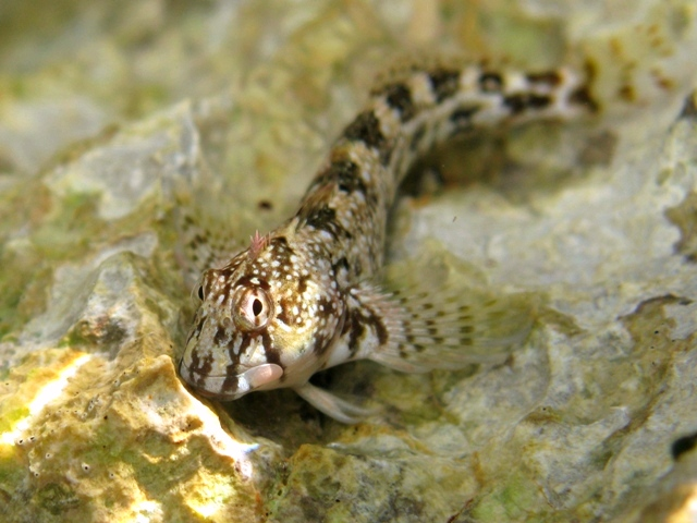 Coryphoblennius galerita photographed in Cres island sea (Croatia).